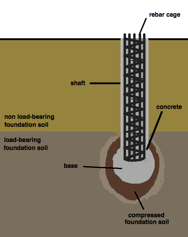 An illustration of a manufactured franki pile